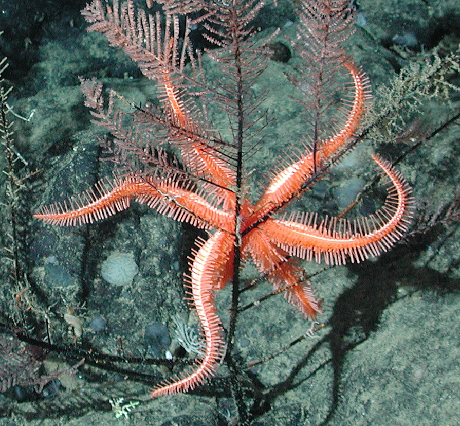 orange brisingid on a black coral at 1950 meters water depth Image ID: expl0961, Voyage To Inner Space - Exploring the Seas With NOAA Collection Location: California, Davidson Seamount